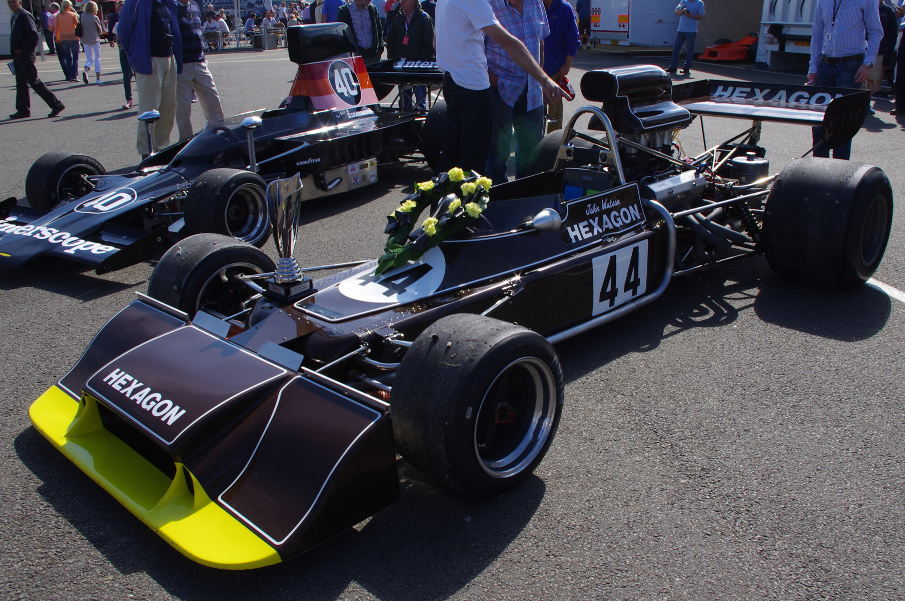 Silverstone Classic 2012